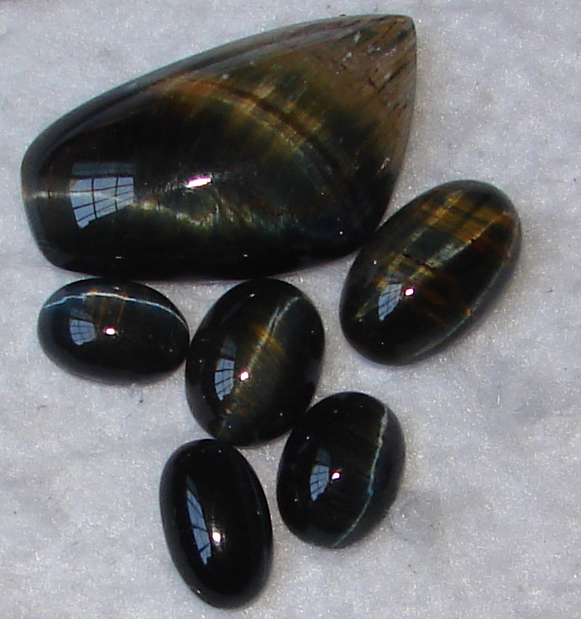 Hawks eyes from Minas Gerais, Brazil. Polished by Afonso Marques